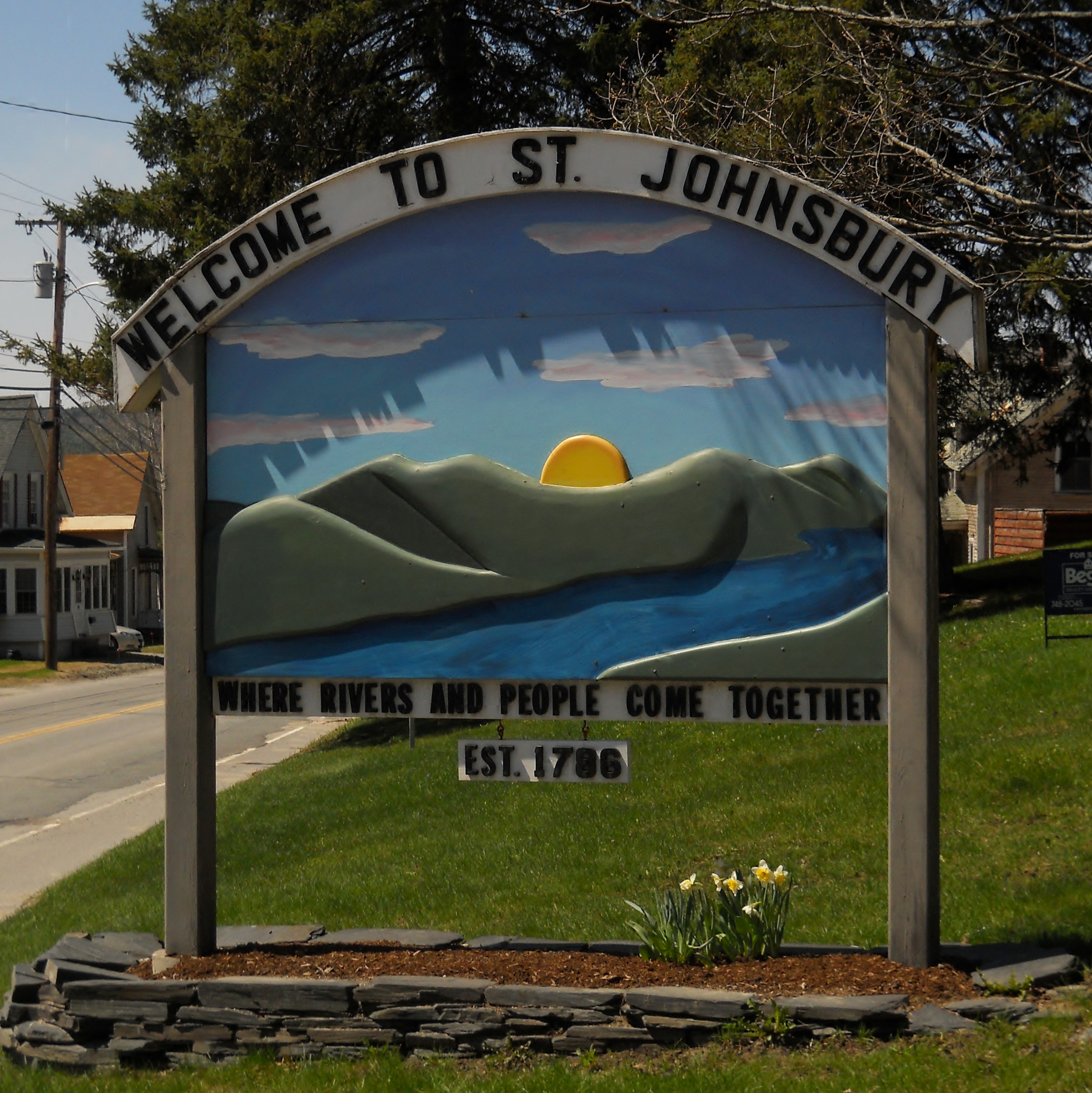 The St. Johnsbury Welcome sign on U.S. Route 2 coming from the east